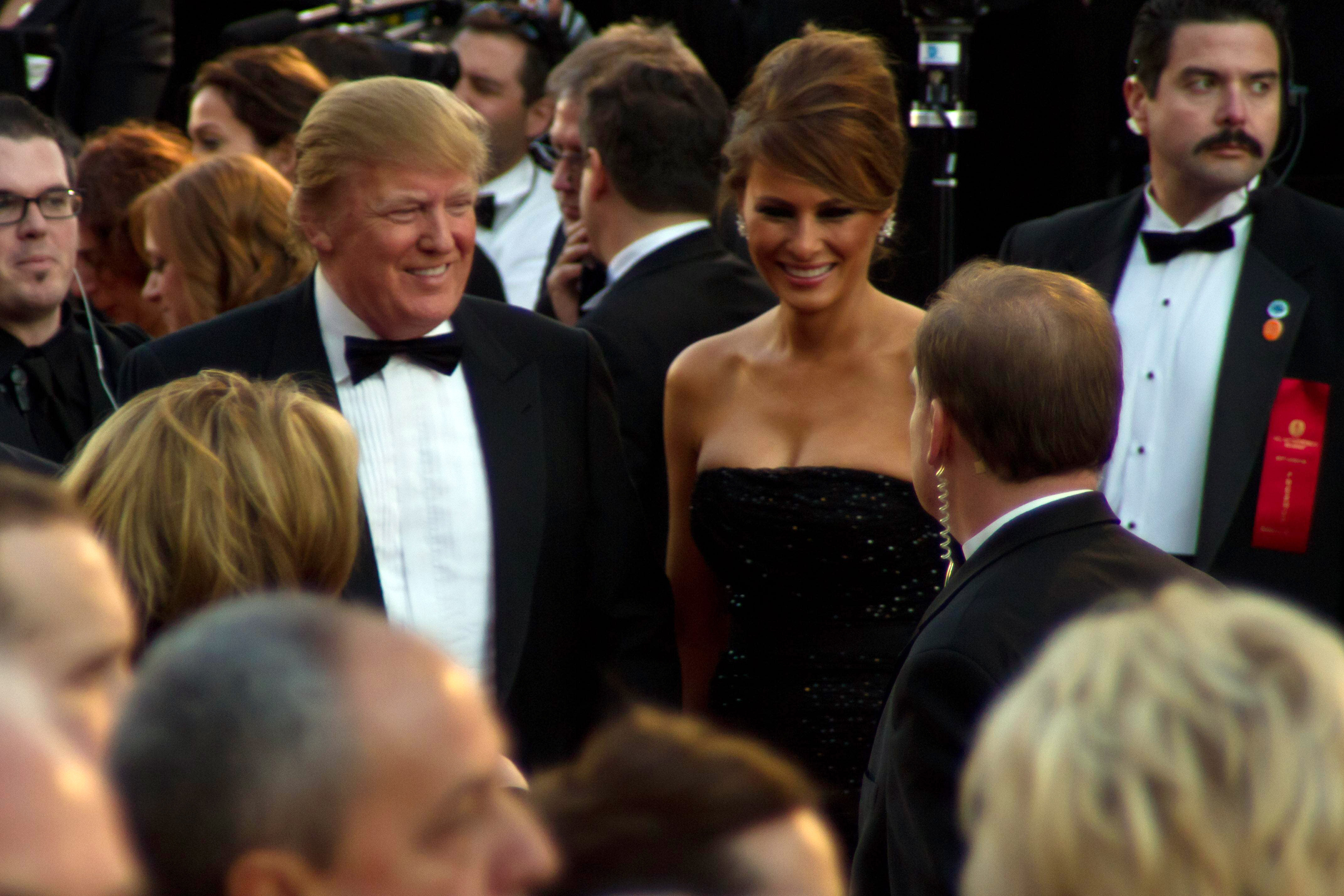 Donald and Melania Trump at the 83rd Academy Awards